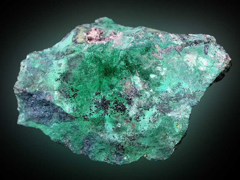 Derriksite, Malachite Locality: Musonoi Mine, Kolwezi, Western area, Katanga Copper Crescent, Katanga (Shaba), Democratic Republic of Congo (Zaïre) (Locality at ) Size: 8.5 x 4 x 4.5 cm. Good sized crystals of the very rare copper-uranium-selenite Derriksite on a bed of Malachite. The mineral occurs rarely as good visible, bottle green crystals. The matrix is selenium-rich Digenite. This specimen was recovered when the uranium dump of Musonoi was sent to the Kolwezi concentrator in the early 1990’s. Musonoi is the type and only known locality for Derriksite where it is known as the rarest of the selenites.